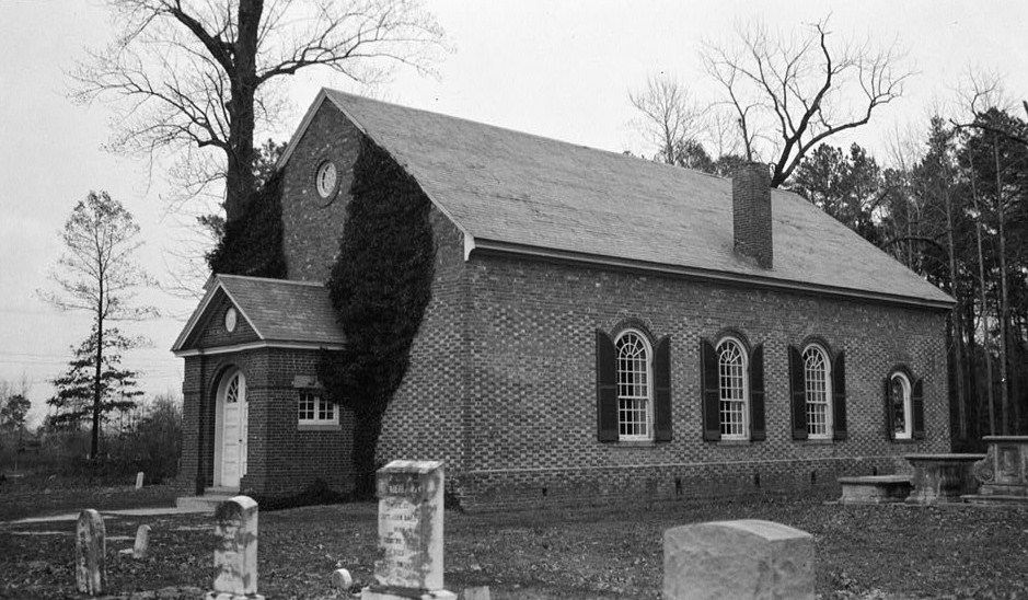 Christ Church, State Route 638, Christ Church vicinity (Middlesex County, Virginia) cropped This file comes from the Historic American Buildings Survey (HABS), Historic American Engineering Record (HAER) or Historic American Landscapes Survey (HALS). These are programs of the National Park Service established for the purpose of documenting historic places. Records consist of measured drawings, archival photographs, and written reports. When reusing please credit: Library of Congress, Prints & Photographs Division, VA,60-____,1-1 This tag does not indicate the copyright status of the attached work. A normal copyright tag is still required. See Commons:Licensing for more information. This work is in the public domain in the United States because it is a work prepared by an officer or employee of the United States Government as part of that person’s official duties under the terms of Title 17, Chapter 1, Section 105 of the US Code. See Copyright. Note: This only applies to original works of the Federal Government and not to the work of any individual U.S. state, territory, commonwealth, county, municipality, or any other subdivision. This template also does not apply to postage stamp designs published by the United States Postal Service since 1978. (See § 313.6(C)(1) of Compendium of U.S. Copyright Office Practices). It also does not apply to certain US coins; see The US Mint Terms of Use. This file has been identified as being free of known restrictions under copyright law, including all related and neighboring rights.